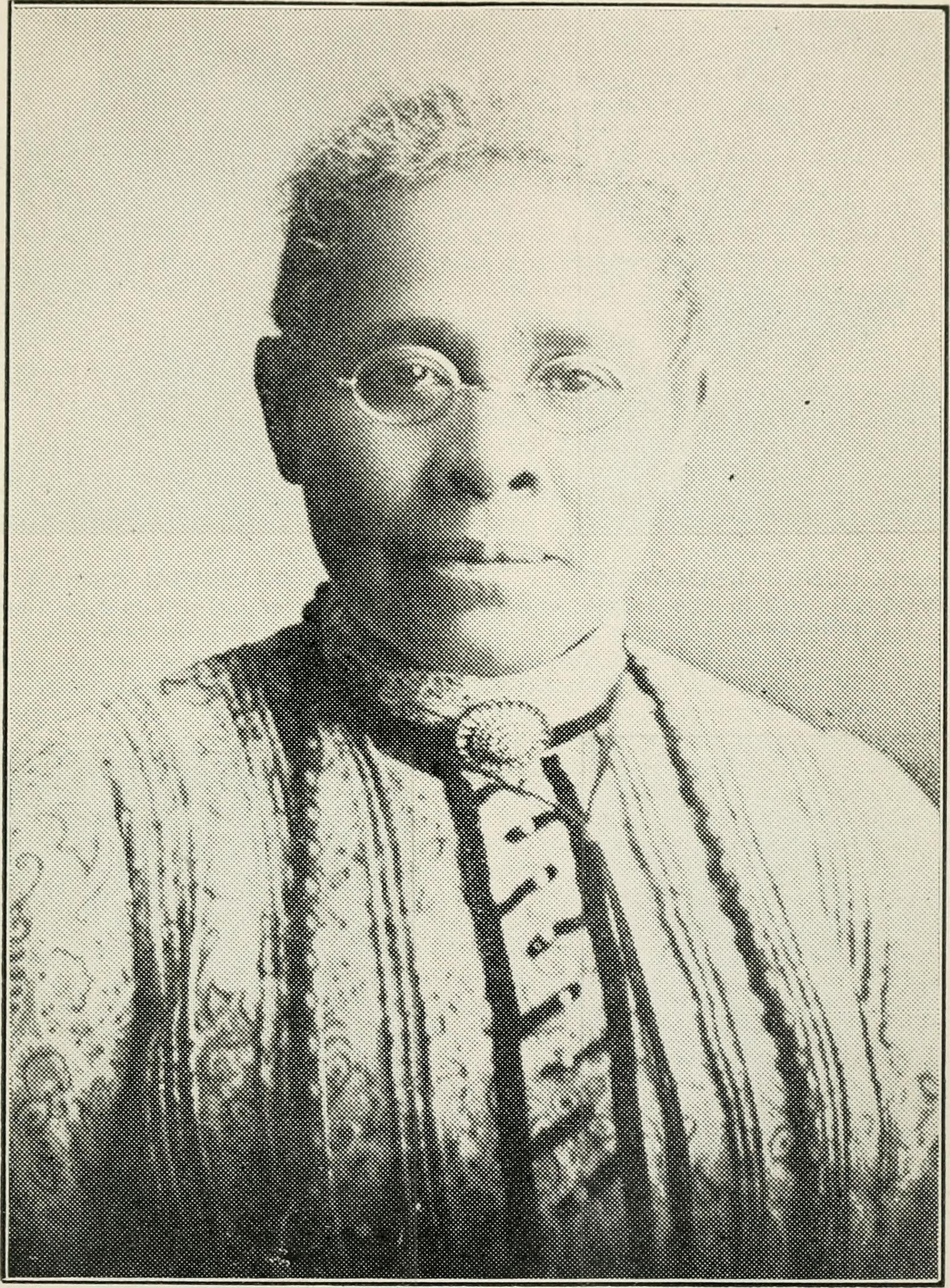 Title: The Negro trail blazers of California (microform) : a compilation of records from the California archives in the Bancroft Library at the University of California, in Berkeley; and from the diaries, old papers, and conversations of old pioneers in the State of California ... Year: 1919 (1910s) Authors: Beasley, Delilah L. (Delilah Leontium), 1871-1934 Bancroft Library Subjects: African Americans -- California Pioneers -- California California -- History Publisher: Los Angeles : (Times Mirror printing and binding house) Text Appearing Before Image: ins, capitalist and owner of the steamship Princess Ann, also a heavystockholder in the Navigation Company of Colored men; Daniel Seals, capitalist anda miner; Avenden Frances, wholesale merchant in dry goods; Monroe Taylor, proprietorof the ferry boat lunch counters; G. W. Waddy, laundry man; C. Harris, locksmith; S.Long, drayman; George Davis, livery stable; William H. Blake, musician and leader ofband, dealer in band instruments; Gibbs & Pointer, proprietors of the Philadelphiastore; C. Griffin, barber on the Panama steamers; Albert Bevitt, herb doctor, officecorner Stockton and Powell streets, San Francisco; Mrs. Charlott Callander, sailors andseamens boarding-house; James Eichard Phillips, hair-dressing parlors and bath house,employing ten barbers and having twenty bathtubs; John Jones and James Eikerorganized the Brannan Guards, with the assistance of Alexander G. Dennison. Cap-tain Alexander Ferguson was connected with the Eichmond Blues and was considered OF CALIFORNIA 147 Text Appearing After Image: MRS. ELLEN HUDDELSTUNFinancier and Investor. 148 THE NEGRO TRAIL BLAZERS